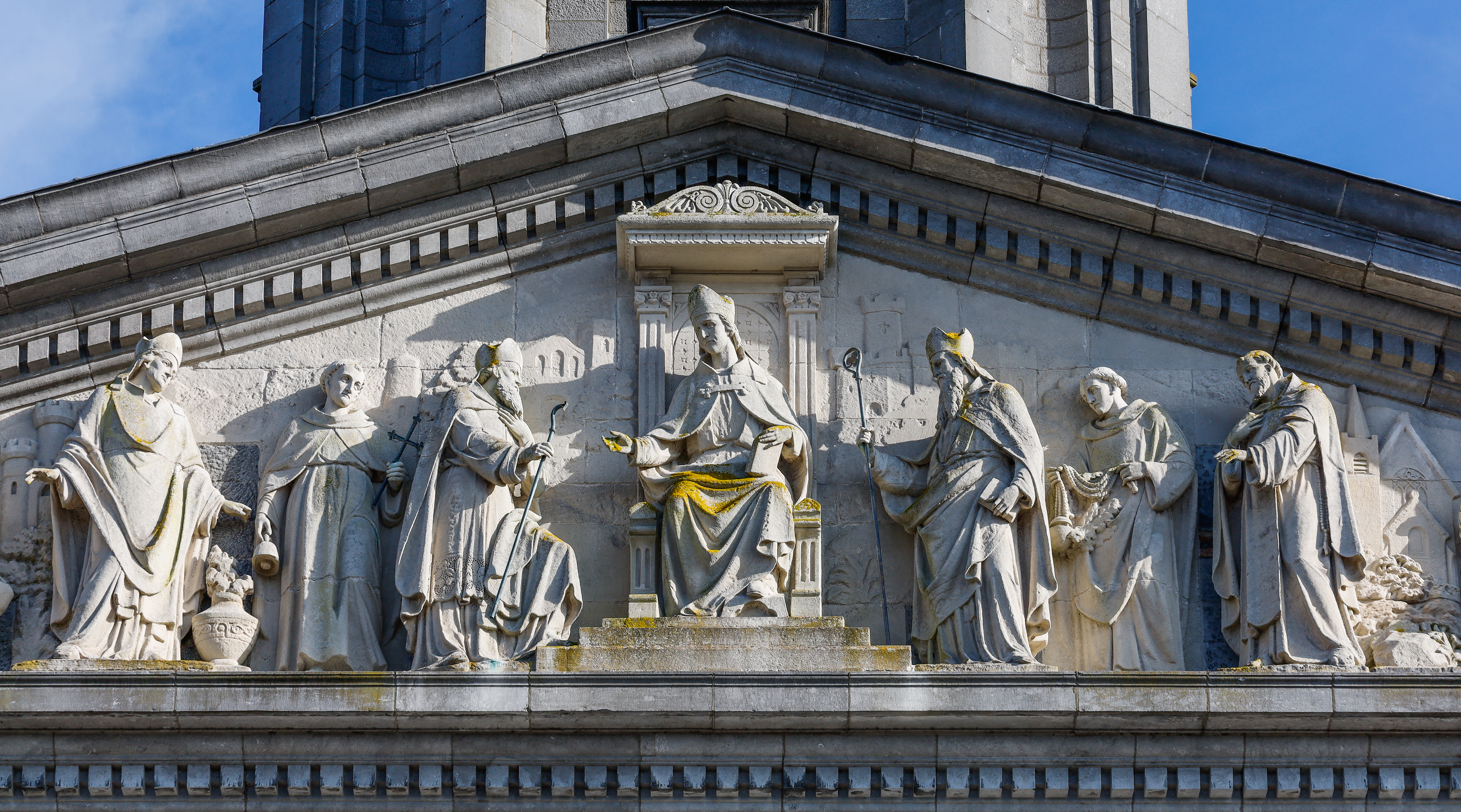 Centre of the pedimental sculpture of the portico, sculpted from Portland stone by George Smyth, Dublin (1858/9–1927). The sculpture depicts St. Mel in its centre on his cathedra after his consecration by St. Patrick as the founding bishop of Ardagh. (See Christine Casey and Alistair Rown, The Buildings of Ireland: North Leinster, p. 378; St. Mel's Cathedral Longford – Visitor's Guide; George Smyth died on 26 May 1927 according to notices in the Evening Harald, 27 May 1927, p. 1., and Irish Times, 27 May 1927, p. 1.)